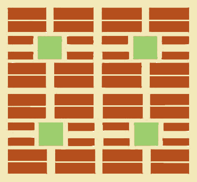 Sketch of Savannah's Town Plan showing four of the typical, cellular wards.